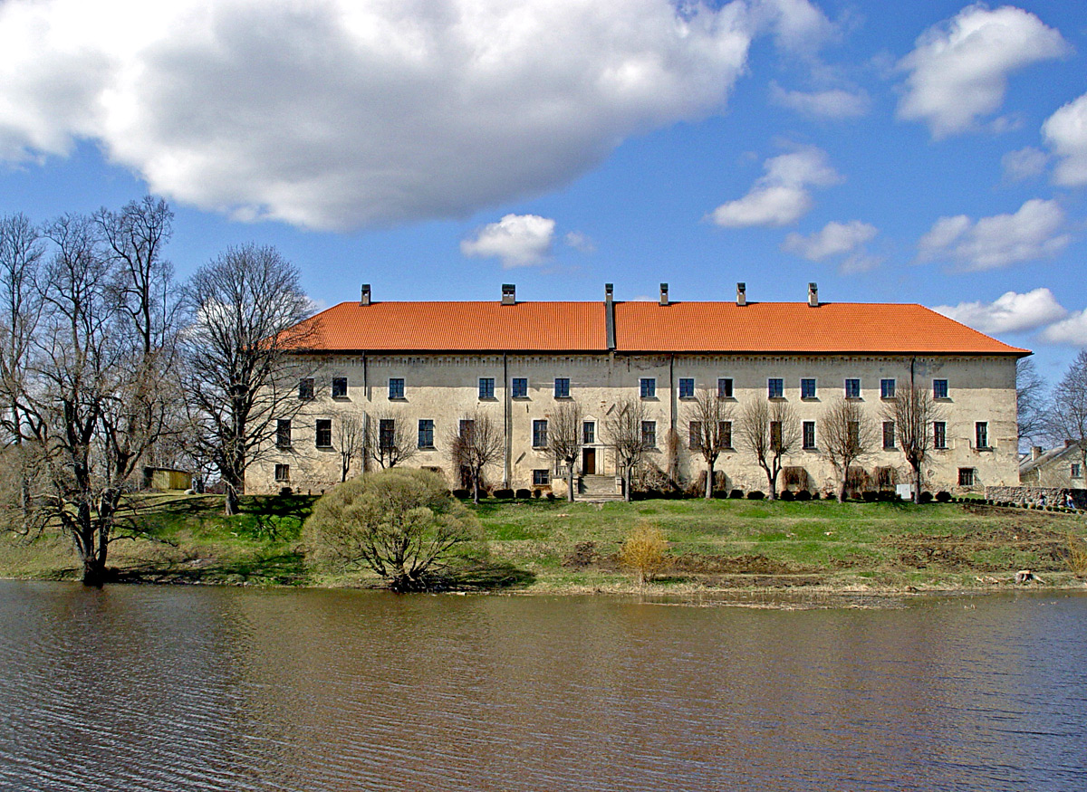 Dundaga castle, looking across the moat